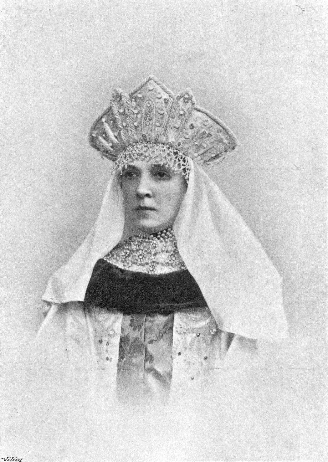 Portrait of Maria Gavrilovna Savina (Мария Гавриловна Савина, 1854 - 1915), Russian actress. The picture was published on occasion of her guest performance in National Theater of Prague. Savina in costume of Vasilisa Melentyeva in the A. Ostrovsky's same title play.